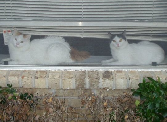 Two Turkish Vans, a female black and white, and a male red tabby and white.